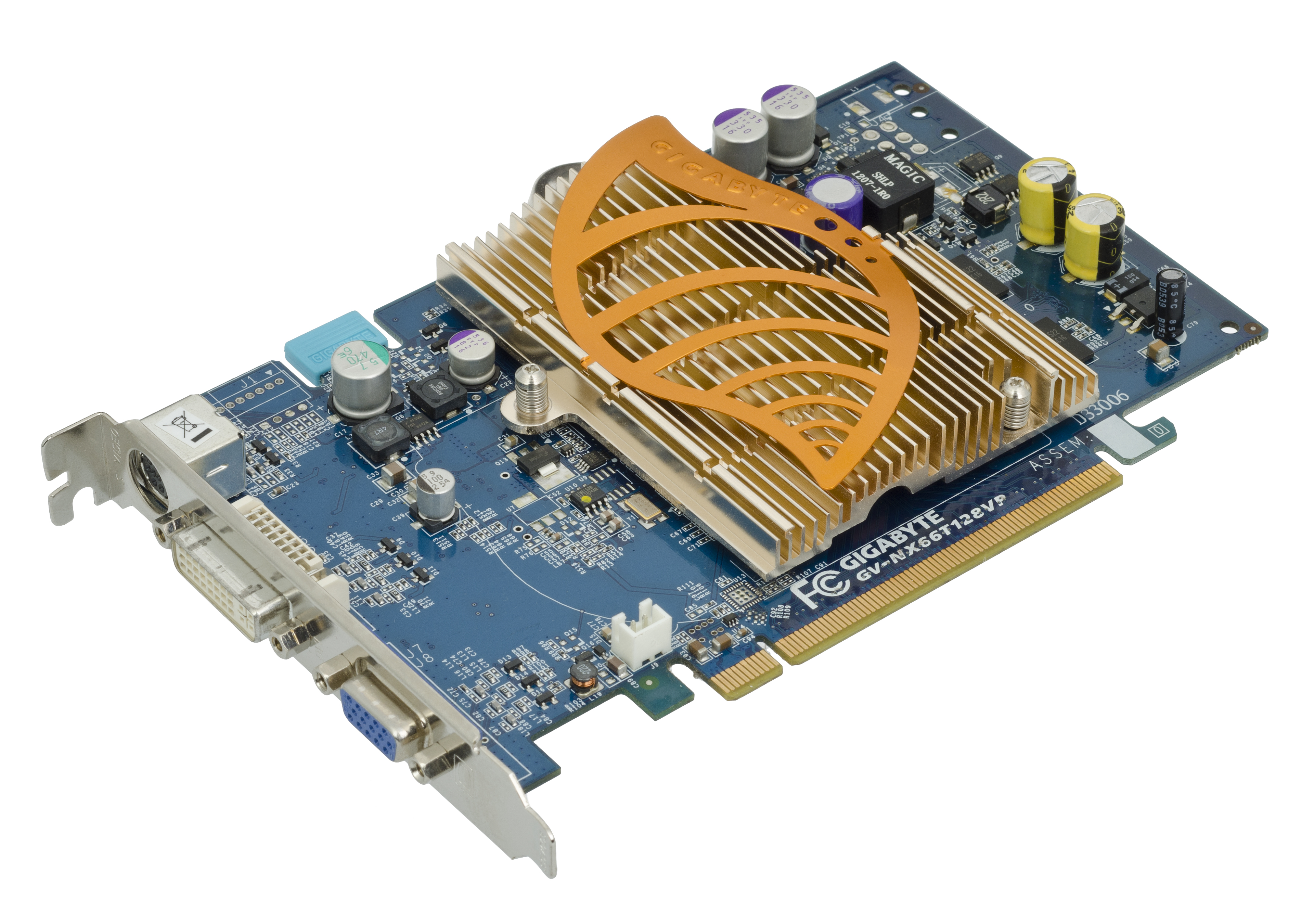 A Gigabyte GeForce 6600GT PCI Express video card for computer graphics. Based off an Nvidia chipset, this card is capable of DirectX 9 and OpenGL 1.5. The model number is GV-NX66T128VP. It is clocked at 500 MHz, has 128MB of GDDR3 memory and was first released in 2005.